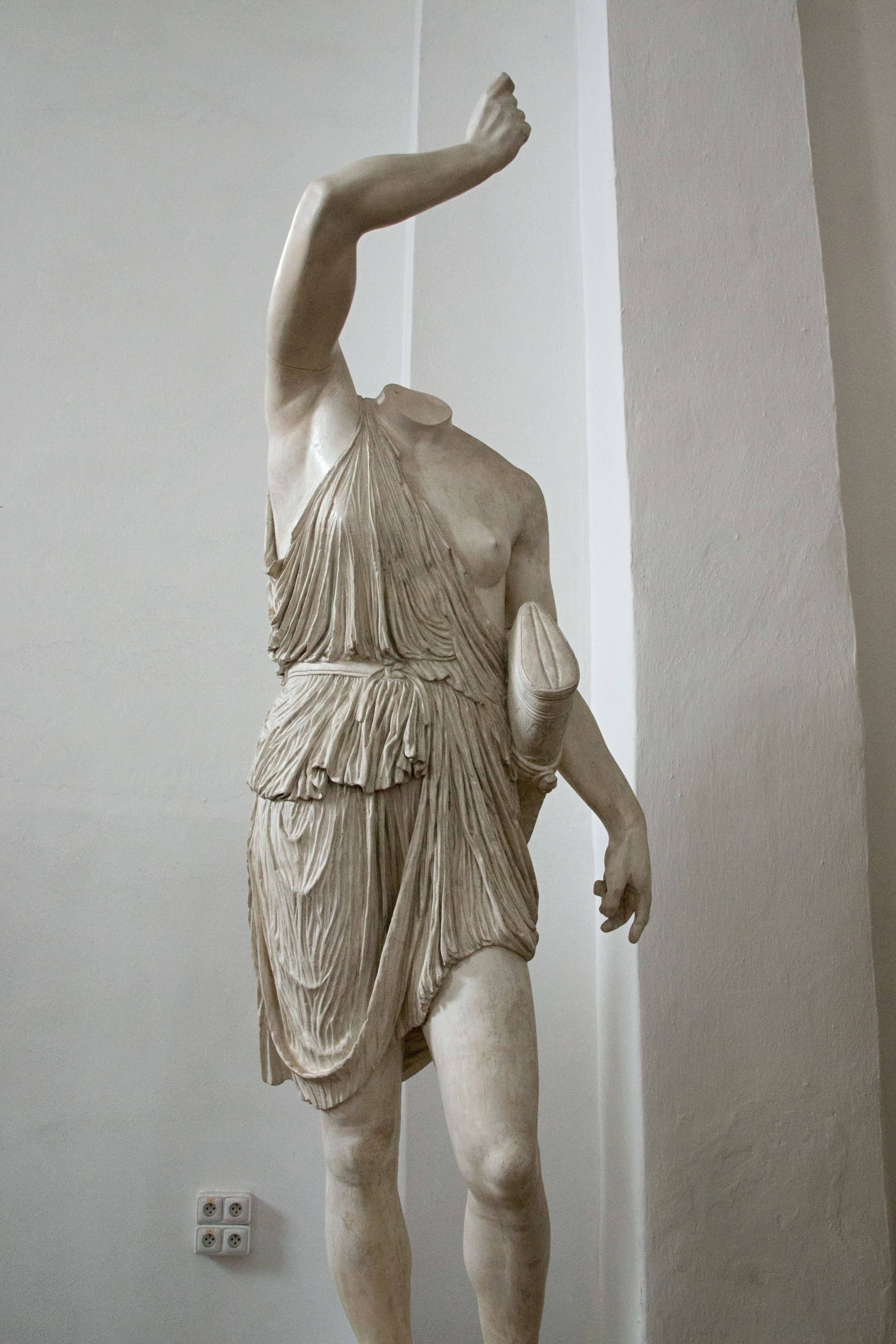 Phidias, Wounded Amazon (for the Artemis Temple in Ephesus), around 430 BC. Plaster cast. Gallery of Classical Art in Hostinné.